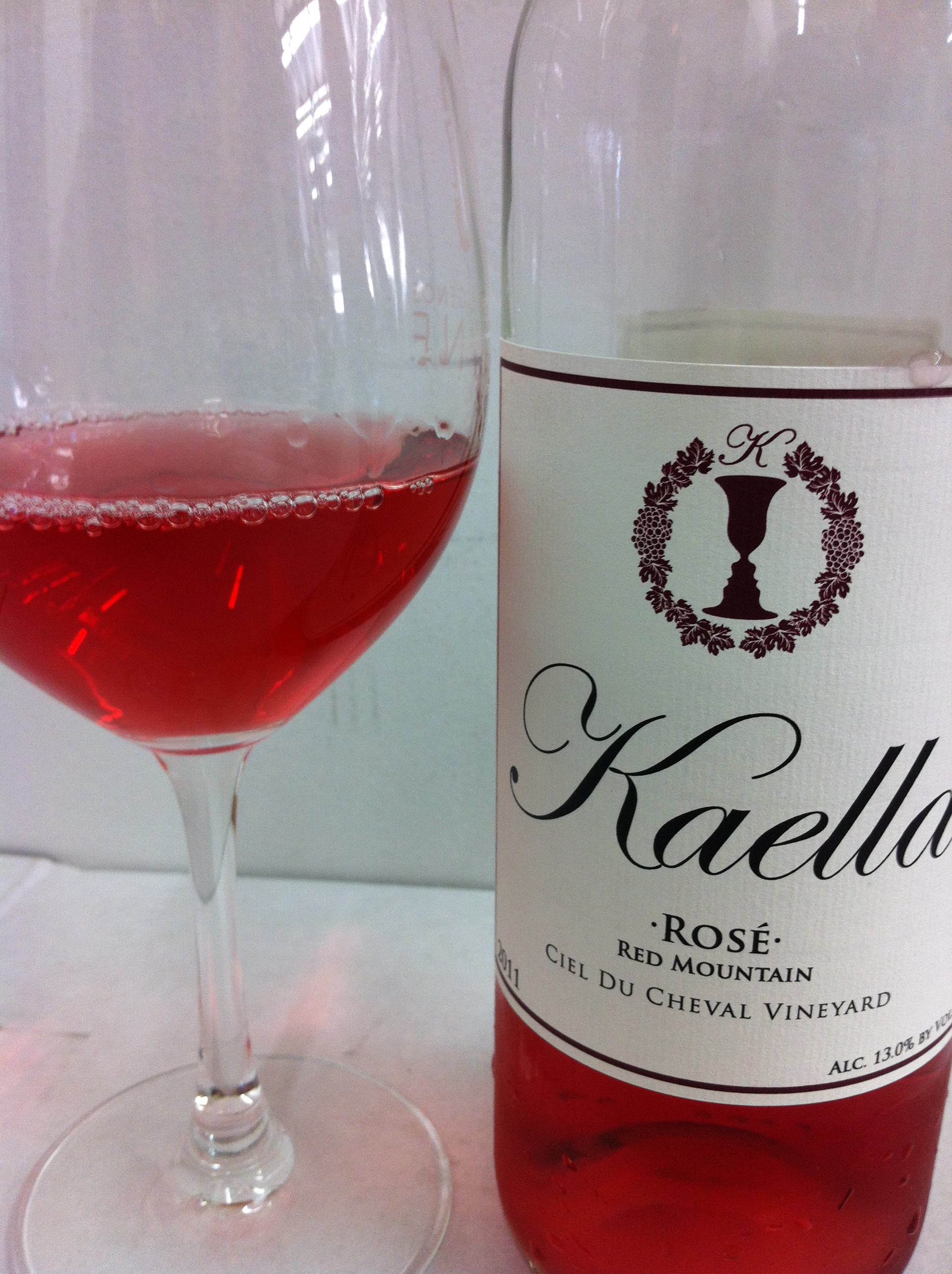 A rose wine from Washington state made from grapes grown in the Ciel du Cheval vineyard in the Red Mountain AVA